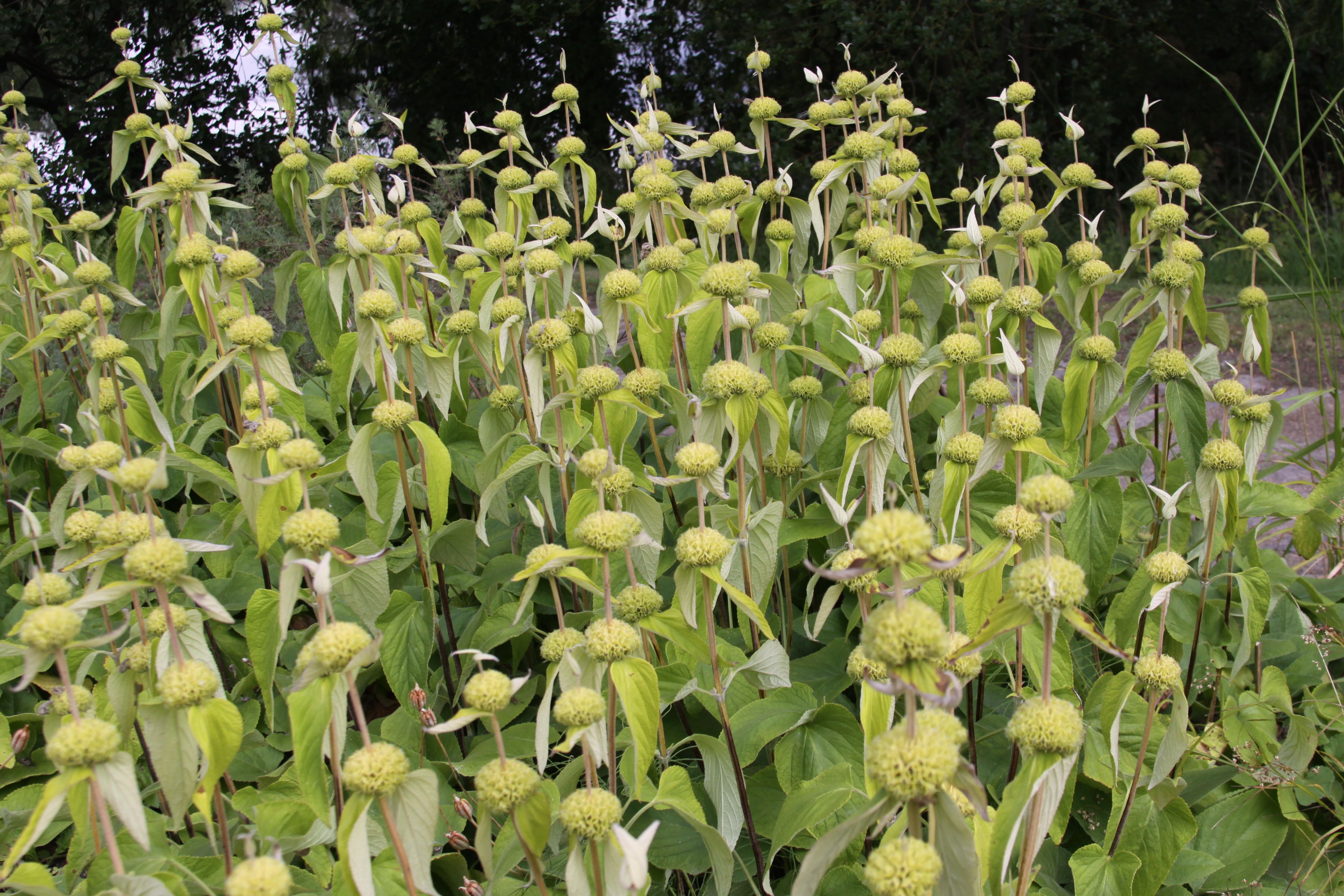 At Copenhagen Botanical Garden, Denmark